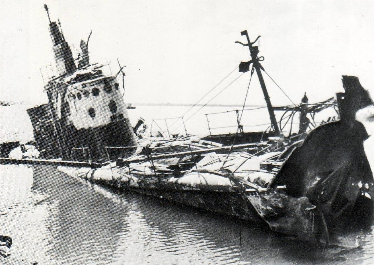 USS Sealion (SS-195) that was destroyed in the bombing disposal. Perhaps the photo taken by the Japanese side.